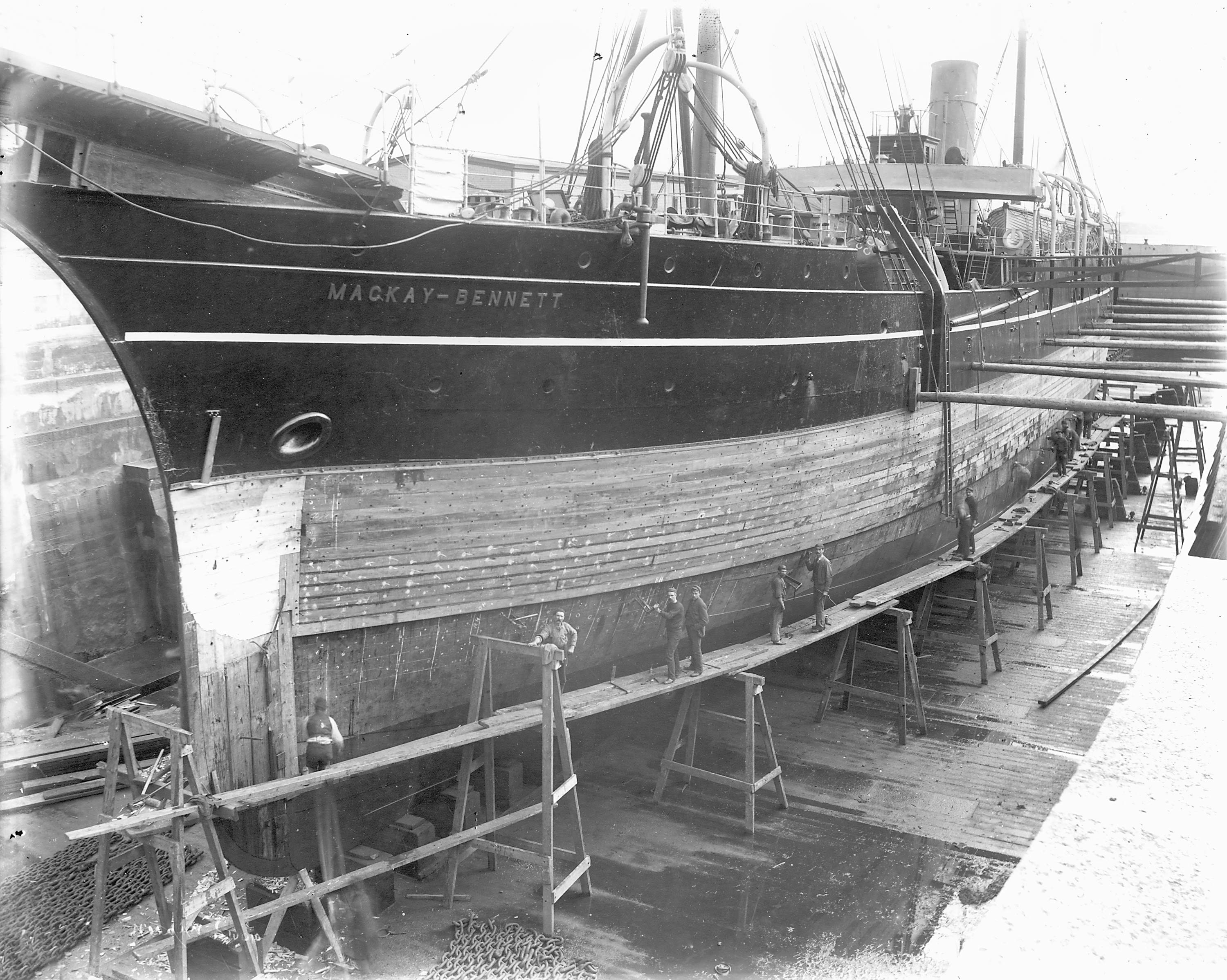 CS MacKay-Bennett in Dry Dock, Halifax, between 1885 and 1922. The Cable Ship MacKay-Bennett, launched in 1884, was named for two founders of the Commercial Cable Company, John W. MacKay and James G. Bennett. The vessel arrived in Halifax in March 1885, based here to facilitate the at-sea repairs of underwater telegraph cables in the North Atlantic. This photograph was possibly taken in 1894, when the MacKay-Bennett was in dry dock, 19 September to 24 December, being sheathed with greenheart, a wood used to protect the hull from ice damage. The vessel is most famous for its part in the RMS Titanic disaster, when it was hired by the White Star Line to recover bodies from the mishap. Departing Halifax on 17 April 1912, the MacKay-Bennett returned on 30 April, having recovered 306 bodies, of which 116 were buried at sea and the other 190 brought into port. The vessel continued at Halifax until 1922, when it was retired to Plymouth, England and used as a cable-storage hulk. Bombed and sunk during World War II, it was refloated and used again as a hulk until 1961, when finally scrapped.